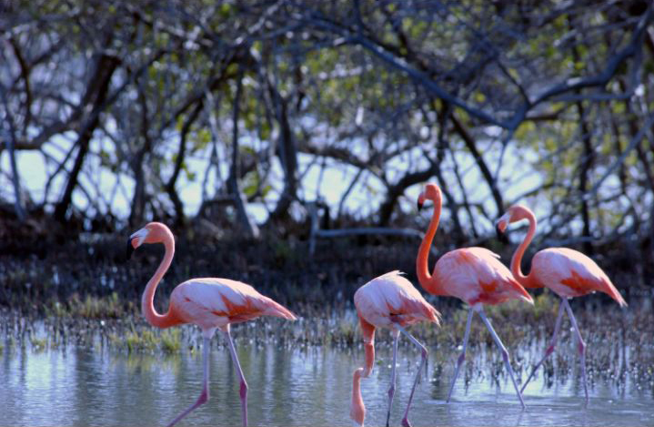 American Flamingos Phoenicopterus ruber at the sanctuary at the southern end of Bonaire island, which at times can have up to 5000 flamingos. The site is located around the Pekelmeer Lagoon and the salt flats.